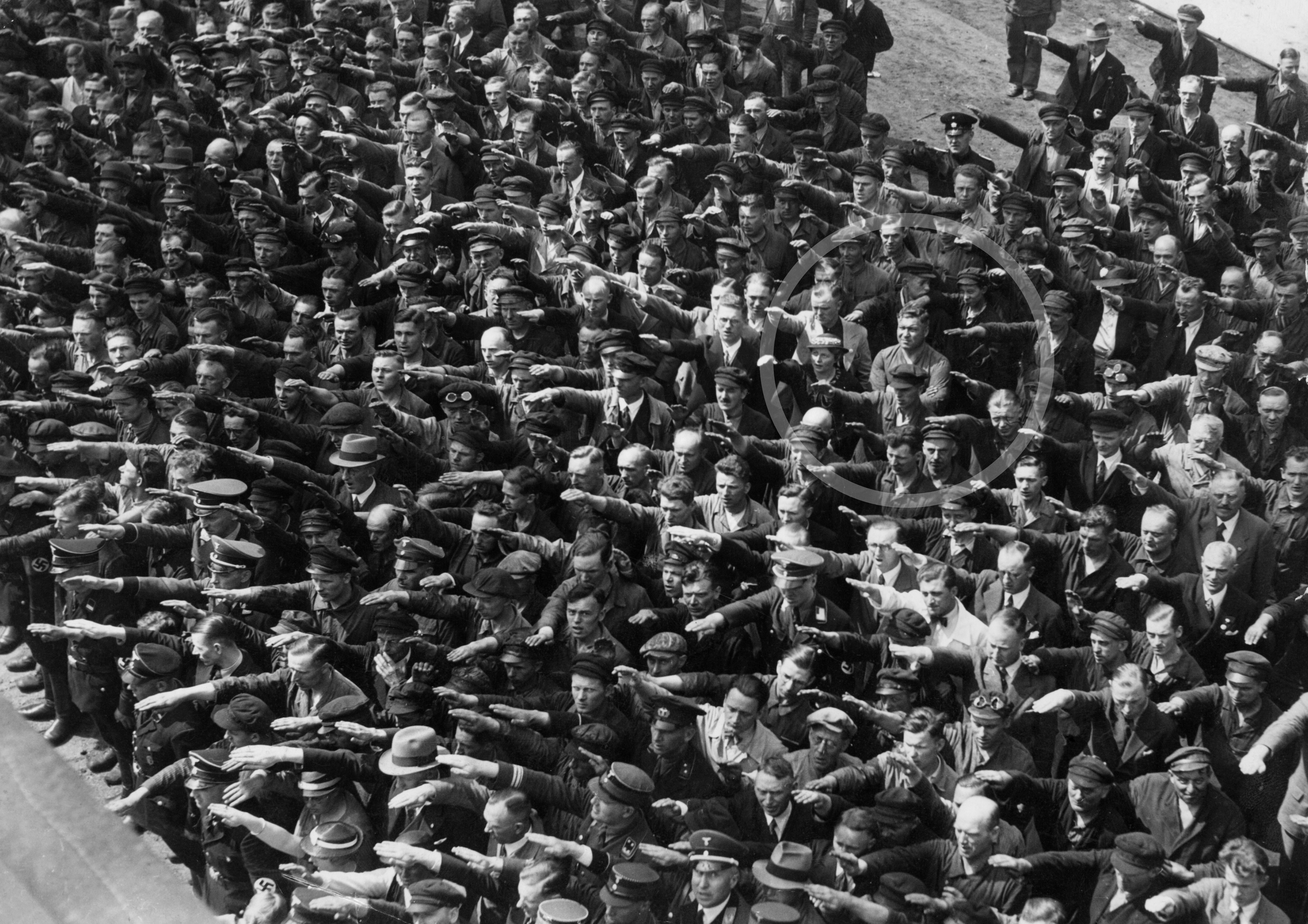 Picture of people giving a Nazi salute, with an unidentified person (possibly August Landmesser or Gustav Wegert) refusing to do so.